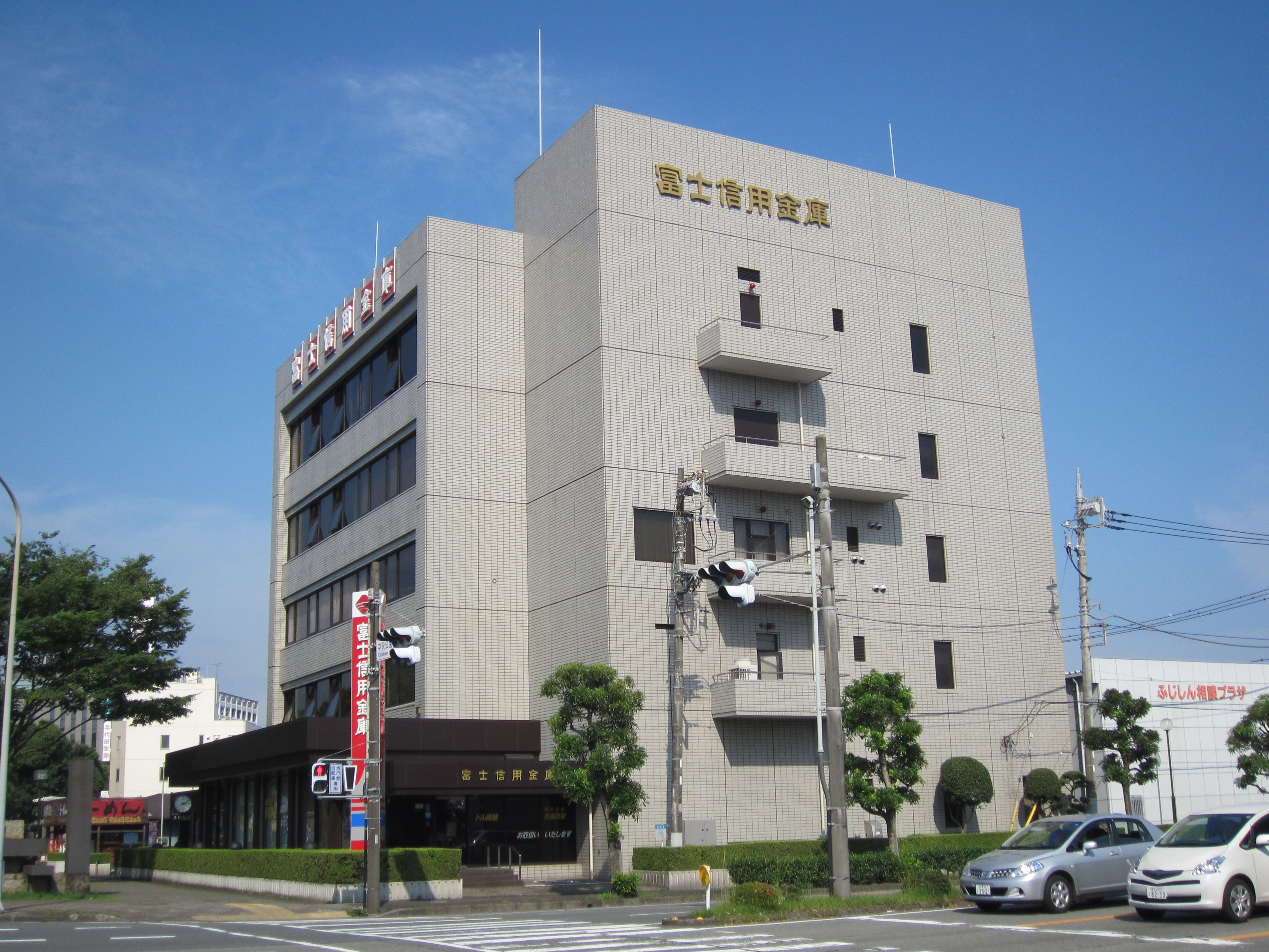 Fuji Shinkin Bank